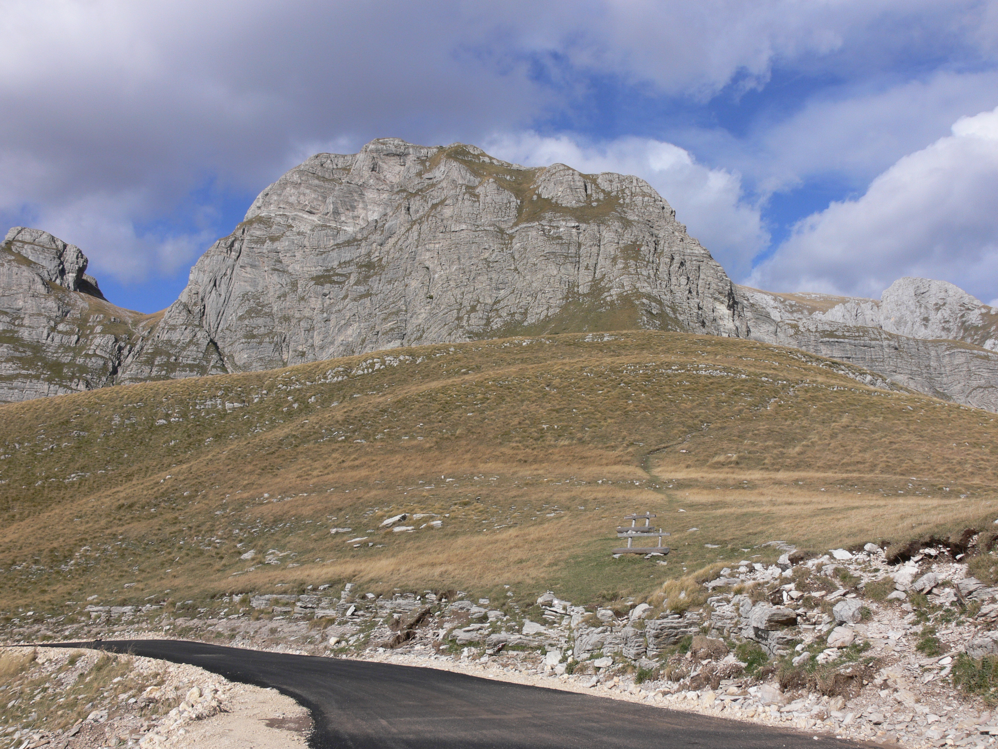 Uvita Greda Mountain in the Durmitor National Park, Montenegro, view from the mountain pass road over the Durmitor Sedlo.